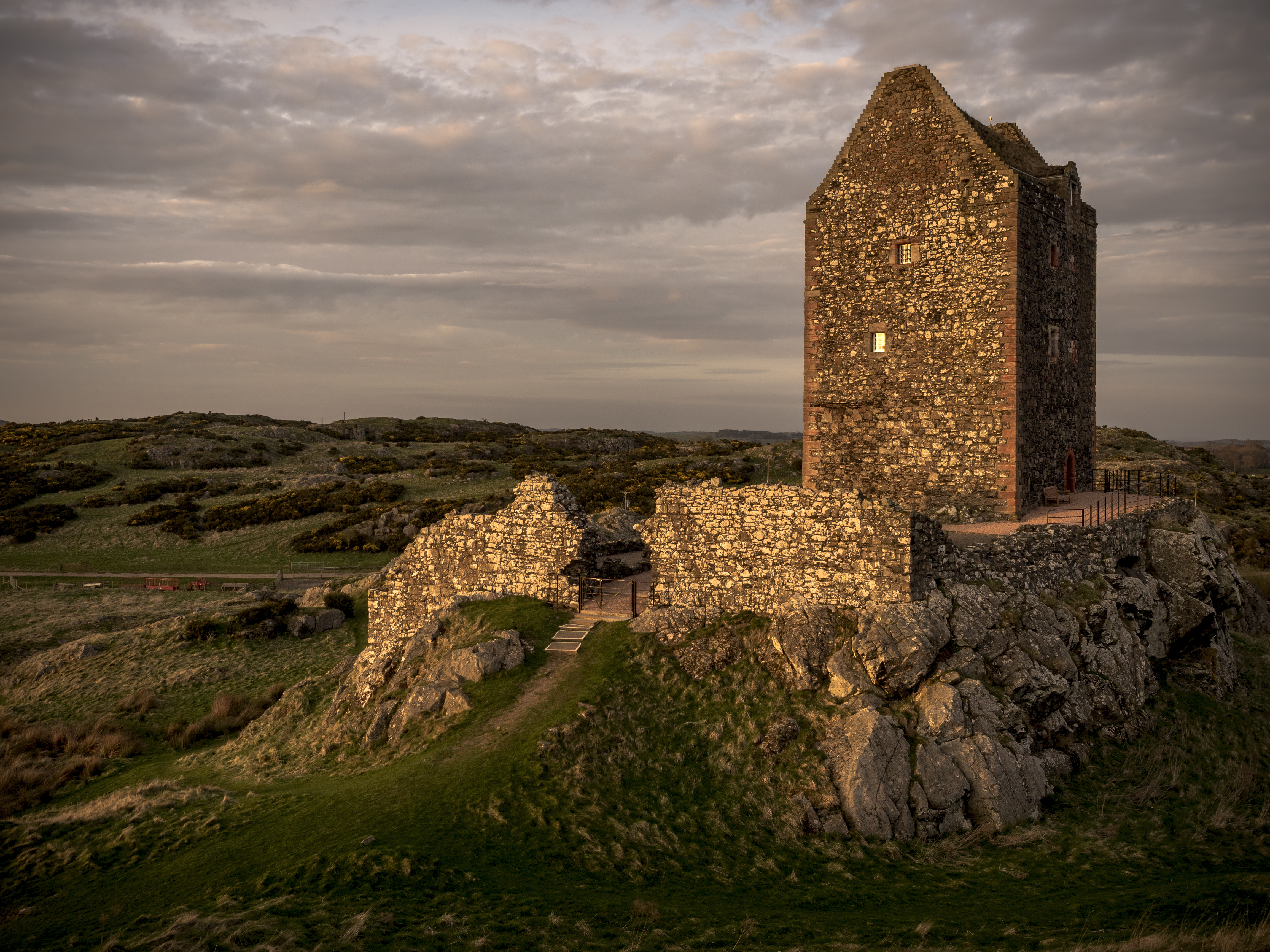 Smailholm Tower, a peel tower at Smailholm, Scotland, built in the 15th or early 16th century. It provided inspiration to multiple works of Sir Walter Scott who spent here a lot of time during his youth.